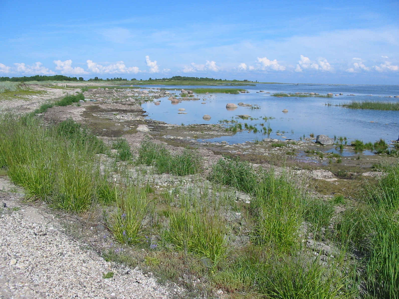 Photo: Siim Sepp, 2003. Seashore of Kihnu.